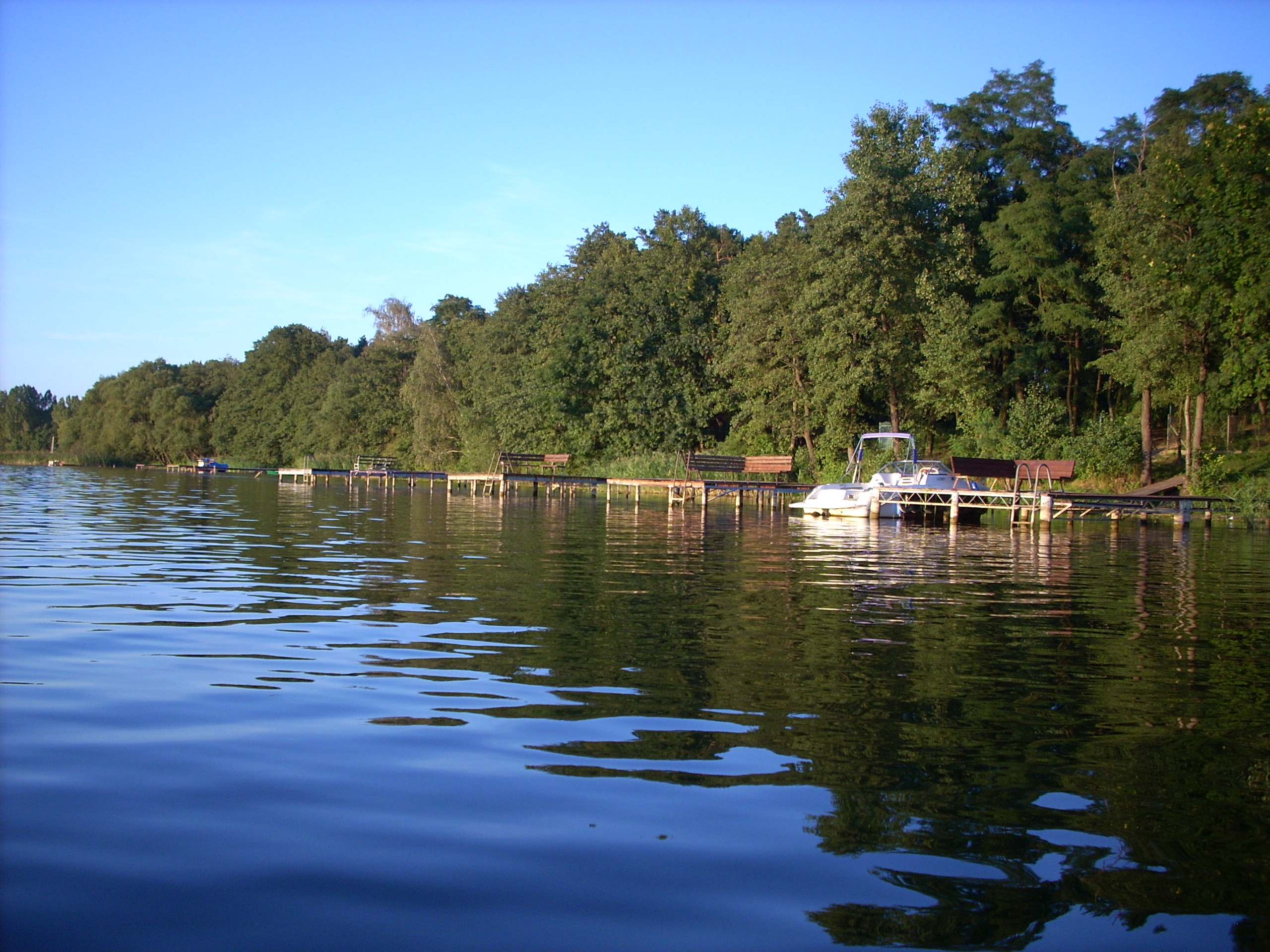 Mikorzyn lake.